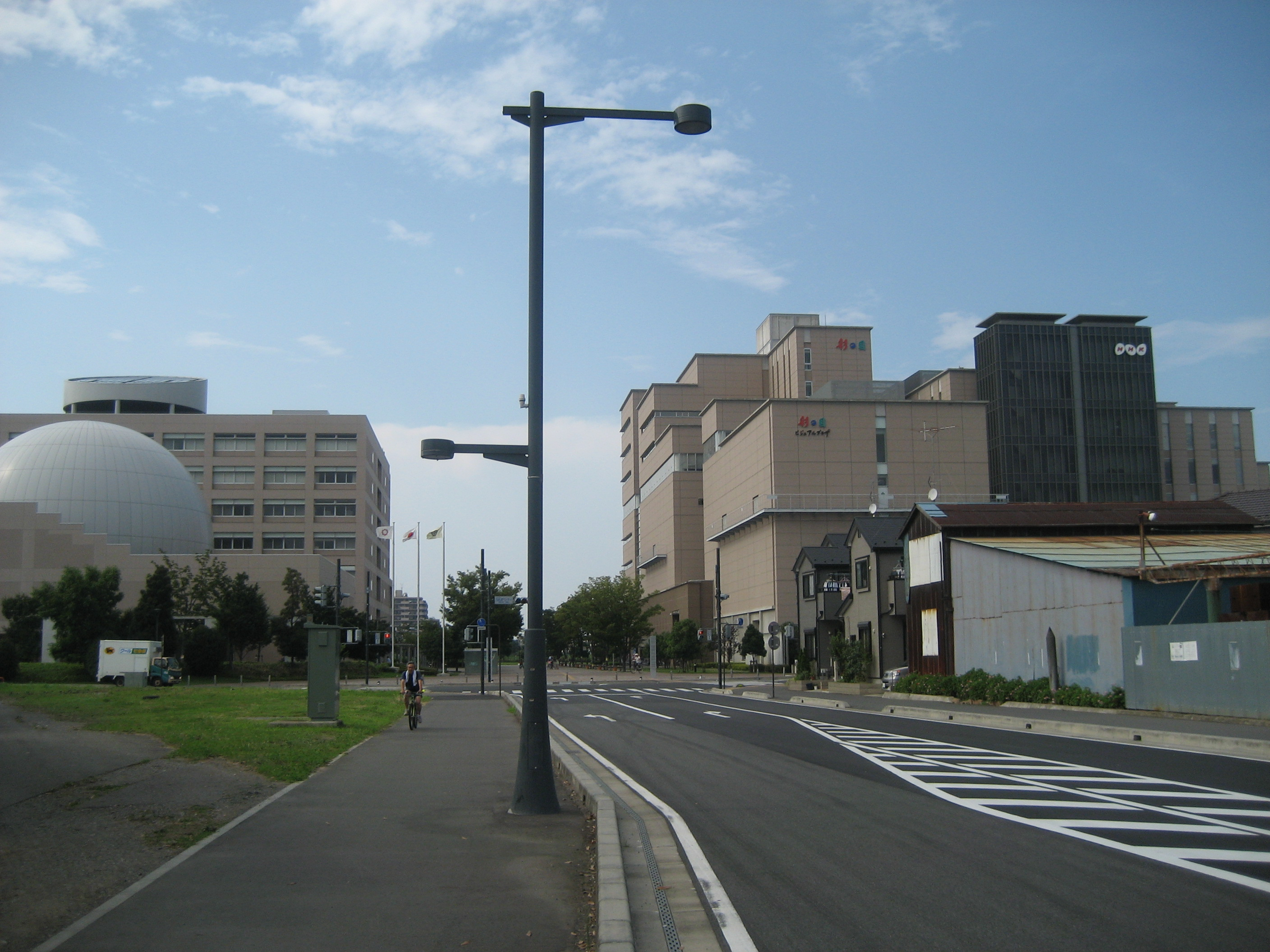 Skip City in Kawaguchi City, Saitama Prefecture, Japan